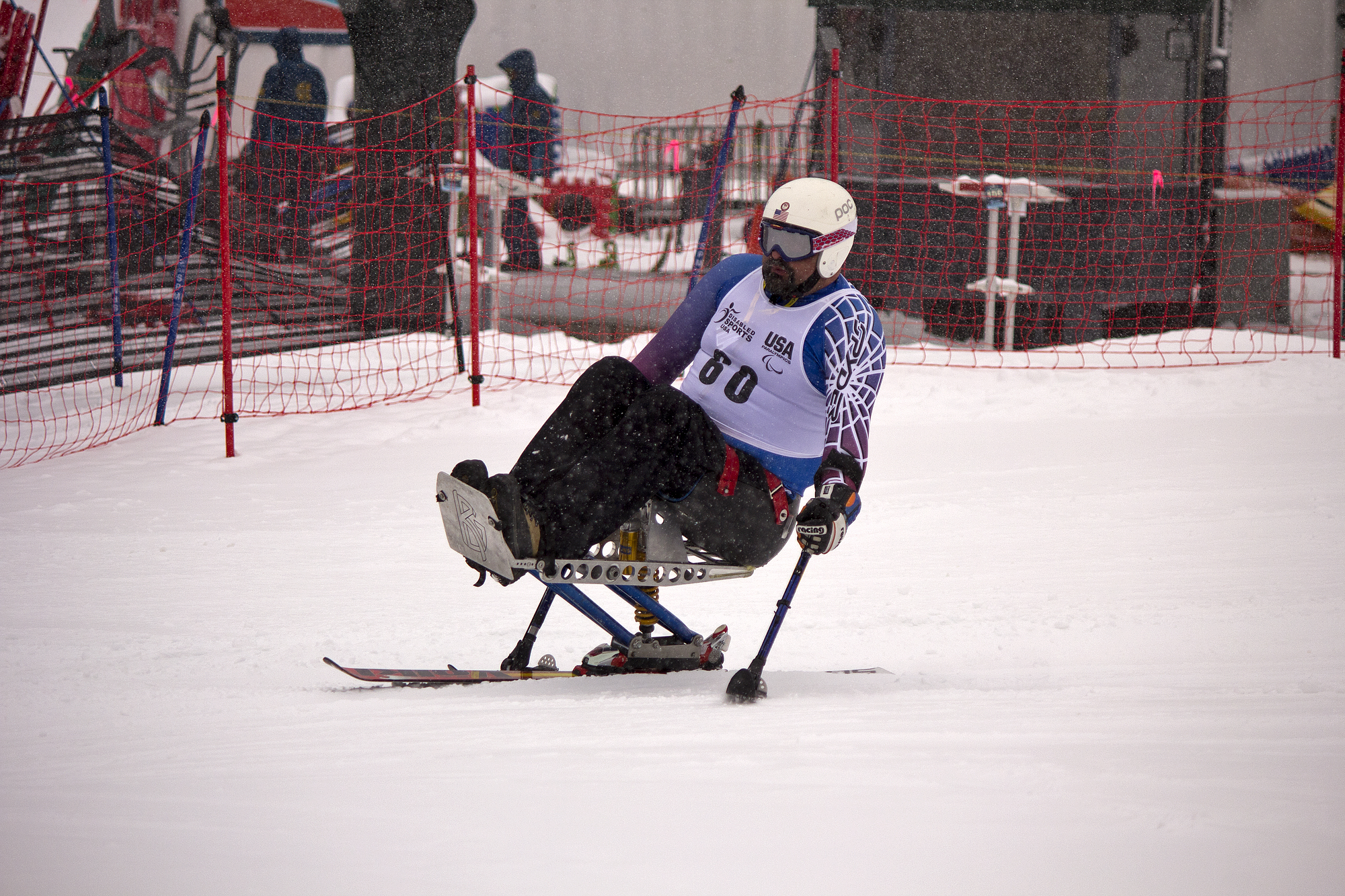 Joe Tompkins competing in the Super G during the 2012 IPC Nor Am Cup at Copper Mountain, Colorado.